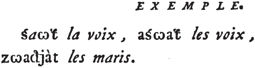 Excerpt from: Constantin François Volney: Simplification des langues orientales, ou méthode nouvelle et facile. D’apprendre les langues arabe, persane et turque, avec des caractères européens, Paris 1795, p. 42 – showing a Latin omega to transcript the phoneme /uː/ from the Arabic script